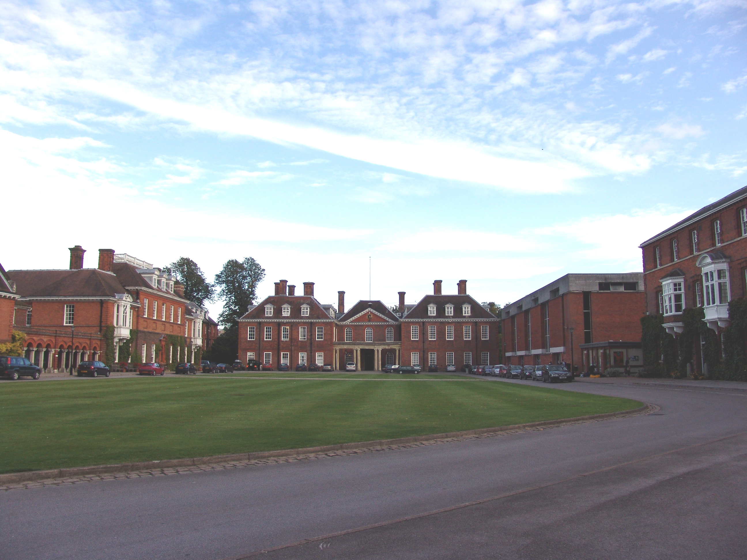 Marlborough College Court showing a variety of architectural styles